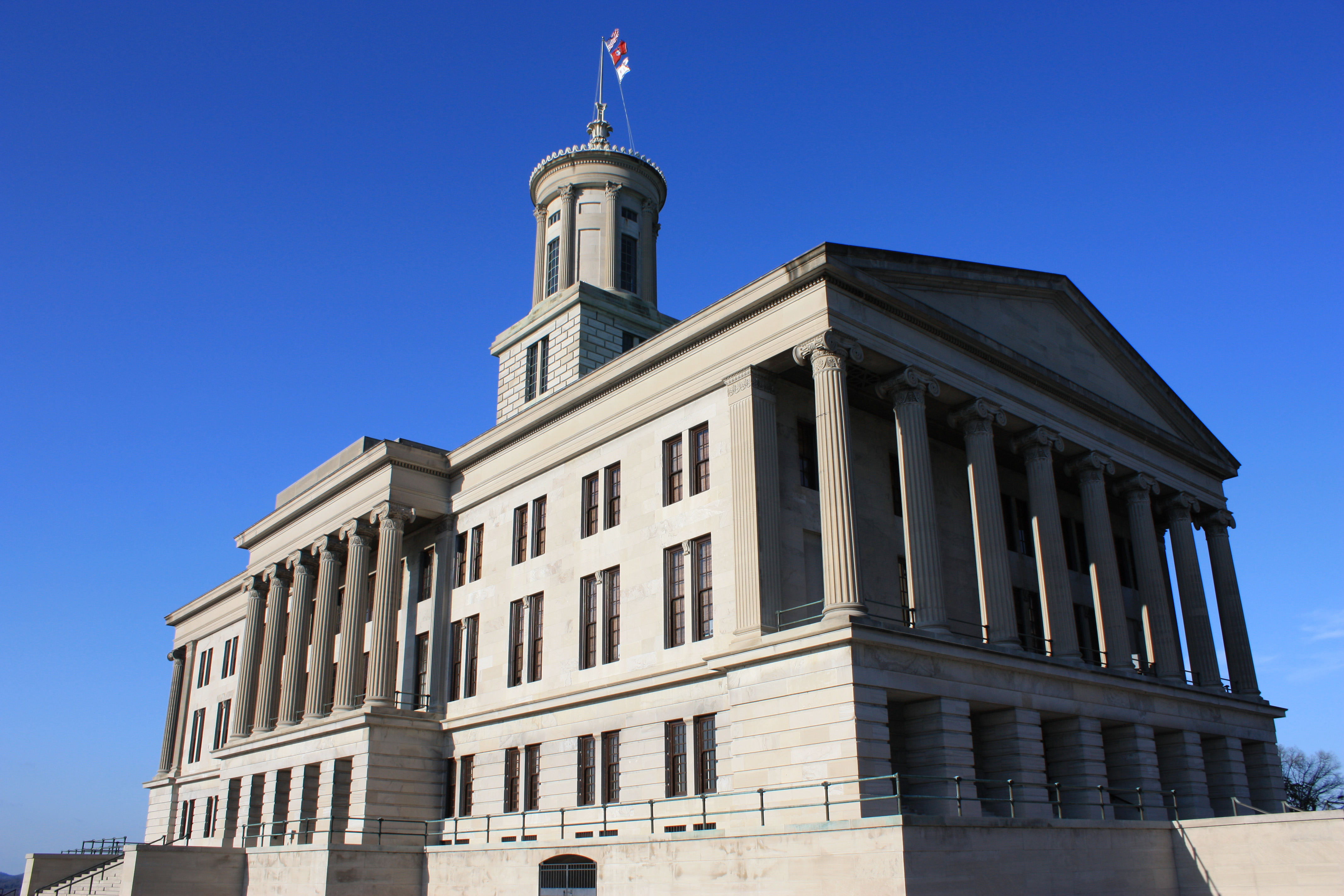 The Tennessee State Capitol